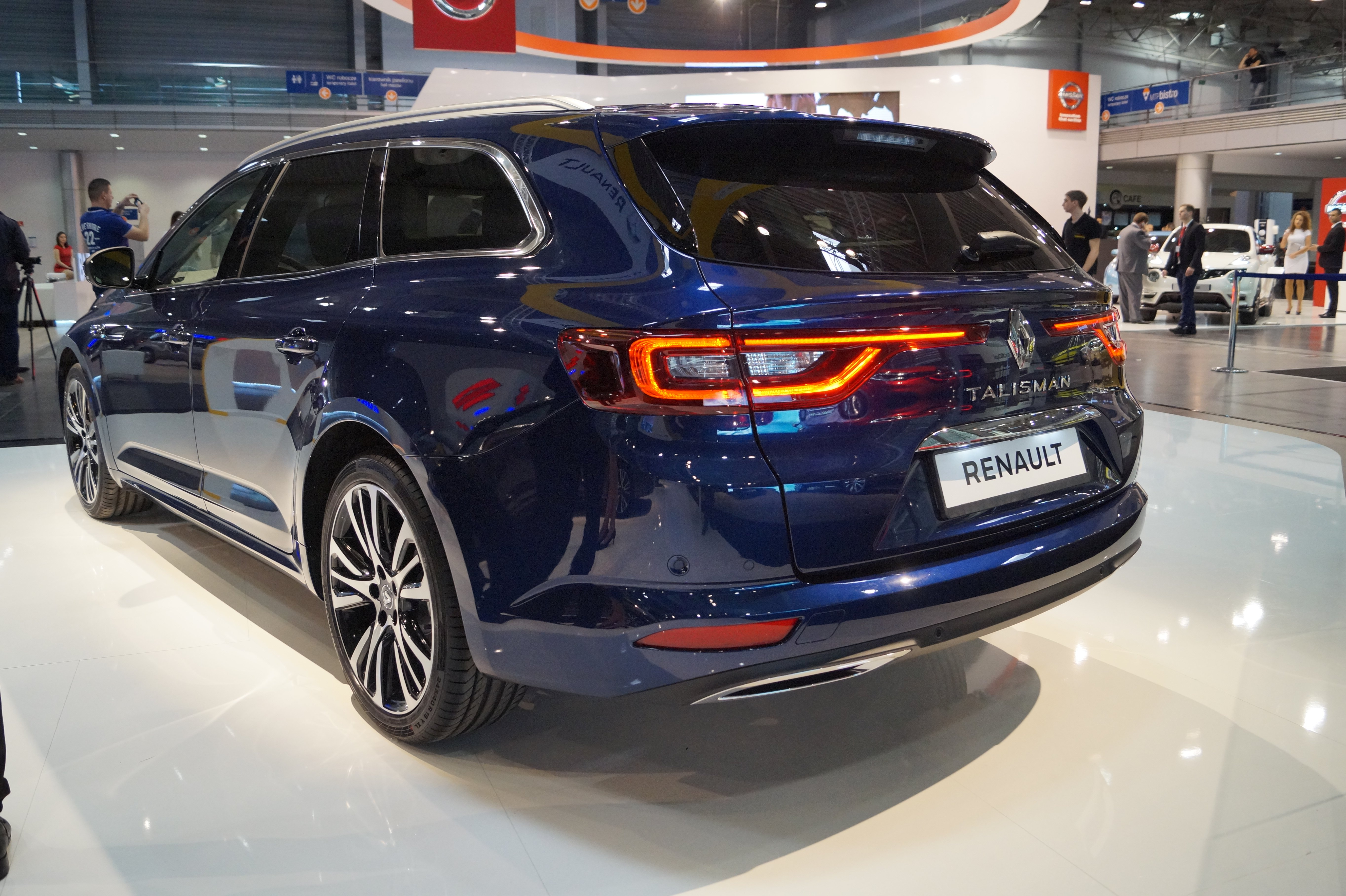 The making of this document was supported by Wikimedia Polska Association, within Wikigrant no. WG 2016-10. Tył Renault Talisman Grandtour na Motor Show Poznań 2016